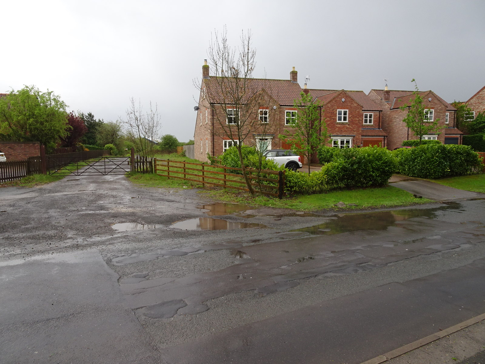 Wheldrake railway station (site), YorkshireOpened in 1913 by the Derwent Valley Light Railway on the line from York (Layerthorpe) to Cliffe Common, this station closed to passengers in 1926 and completely in 1968. View south towards Cottingwith and Cliffe Common. The line crossed the road by a level crossing where the driveway on the far right now is. The platform and main station building were approximately where the house on the left now stands. The gateway on the left gave access to the goods yard. The station building was carefully dismantled and can now be seen at Murton Park.